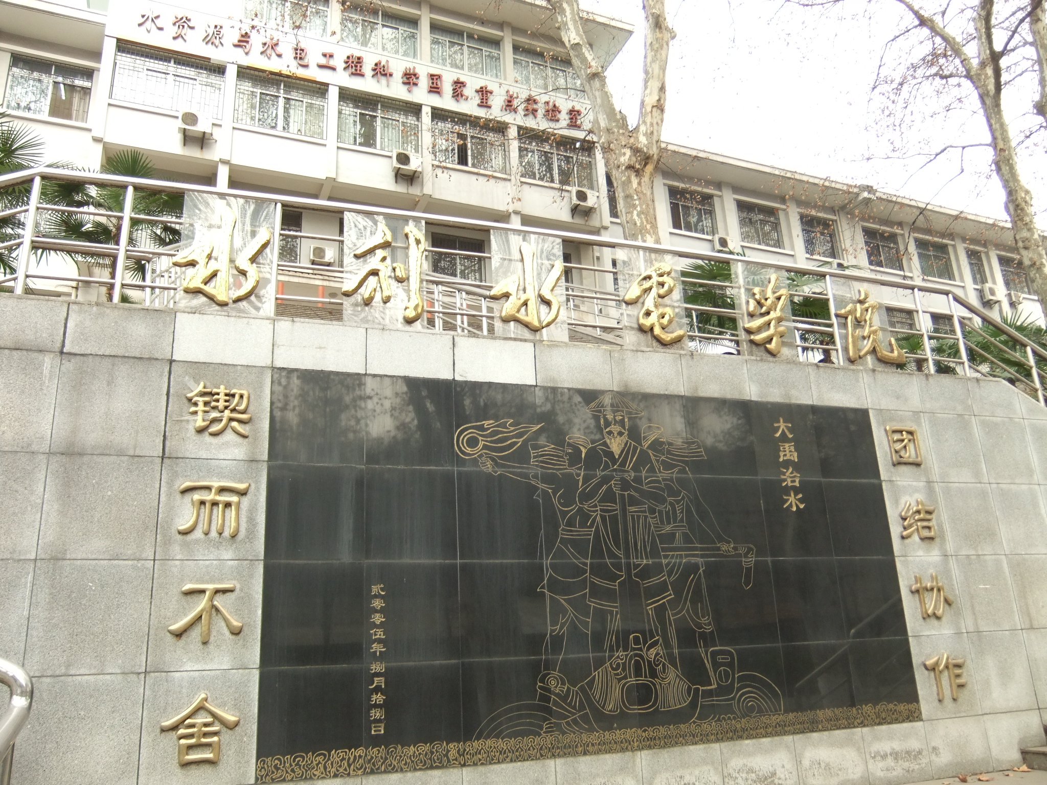 The National Laboratory for Water Resources and Hydropower Engineering Science at Wuhan University's main campus. The building is decorated with a relief entitled “Yu the Great controls the waters" （大禹治水）and depicting Yu the Great, with his trusty turtle, leading the best reprsentatives of China's people in their struggle with the flood. The piece of art is dated 2005.